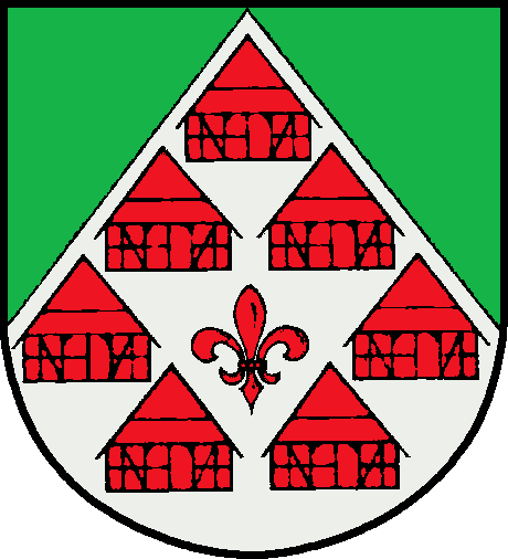 Coat of arms of the municipality Braak in Schleswig-Holstein, Germany.